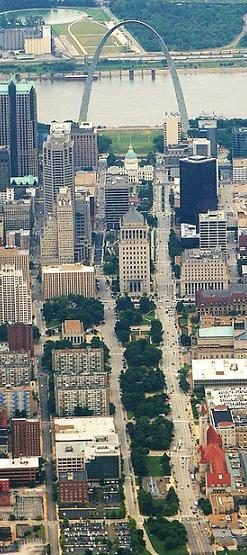 ariel view of the gateway mall.